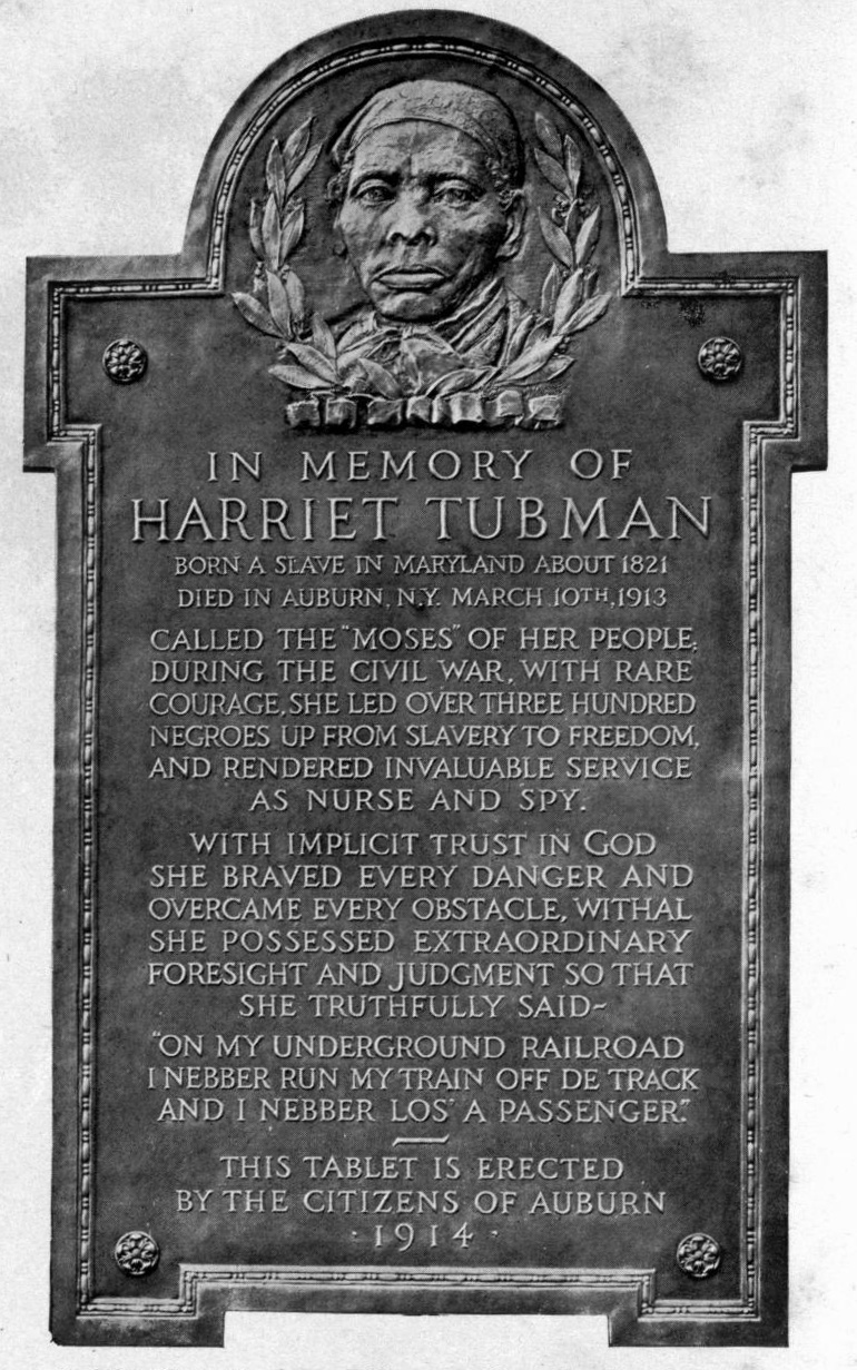 Commemorative plaque honoring Harriet Tubman. Plaque reads: In Memory of Harriet Tubman. Born a slave in Maryland about 1821 Died in Auburn, N.Y. March 10th, 1913 Called the "Moses" of her people during the Civil War. With rare courage she led over three hundred negroes up from slavery to freedom, and rendered invaluable service as nurse and spy. With implicit trust in God she braved every danger and overcame every obstacle, withal she possessed extraordinary foresight and judgement so that she truthfully said~ "On my underground railroad I nebber run my train off de track and I nebber los' a passenger" This tablet is erected by the citizens of Auburn 1914.